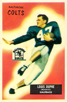 American football player L. G. Dupree on a 1955 Bowman card.